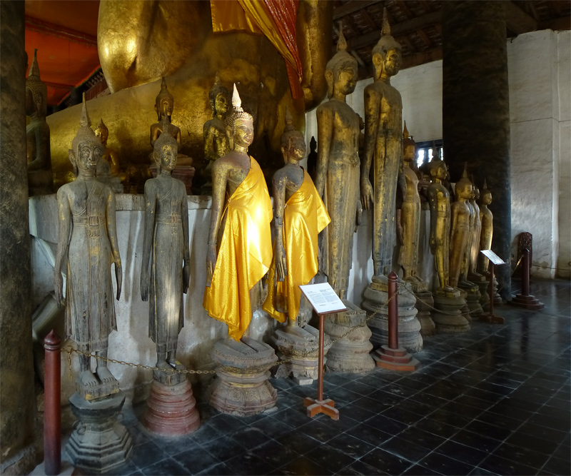 Vat Visounarath, Luang Prabang, Laos. Ancient Buddhas in calling for the rain position, some in Khmer style with a rounder face.